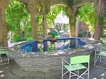 Finger Bowl, water-based dinner table at Grey Towers National Historic Site